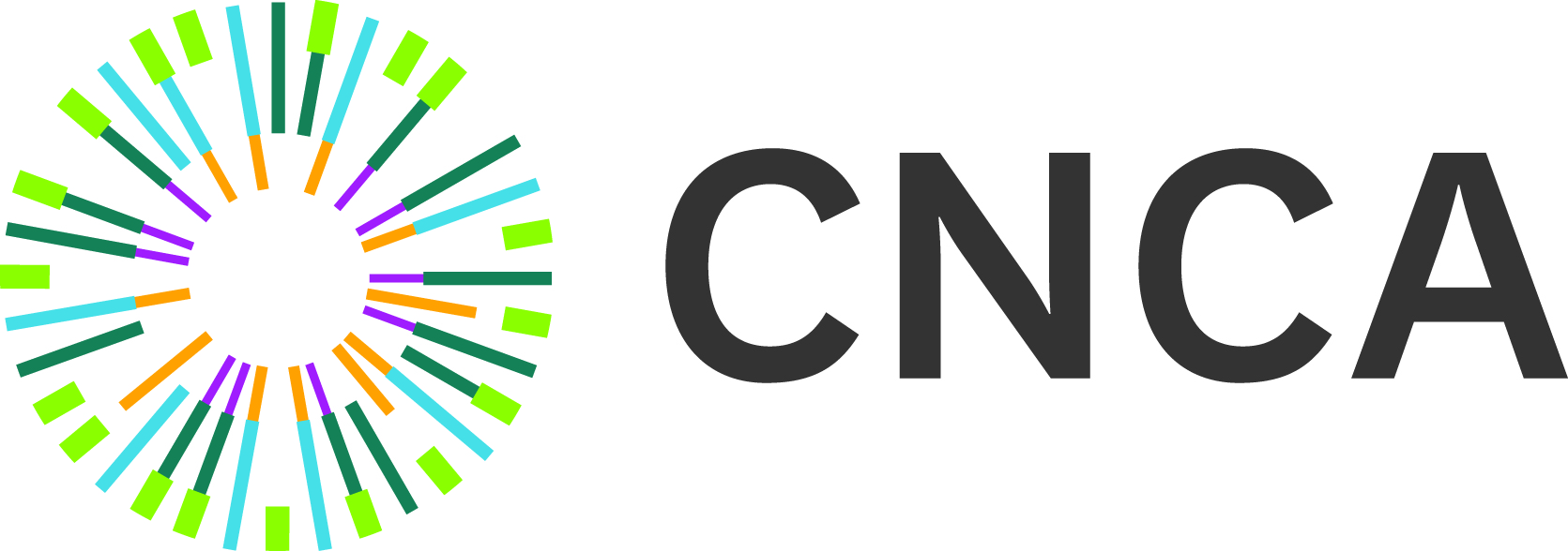 CNCA's logo was created in 2015.